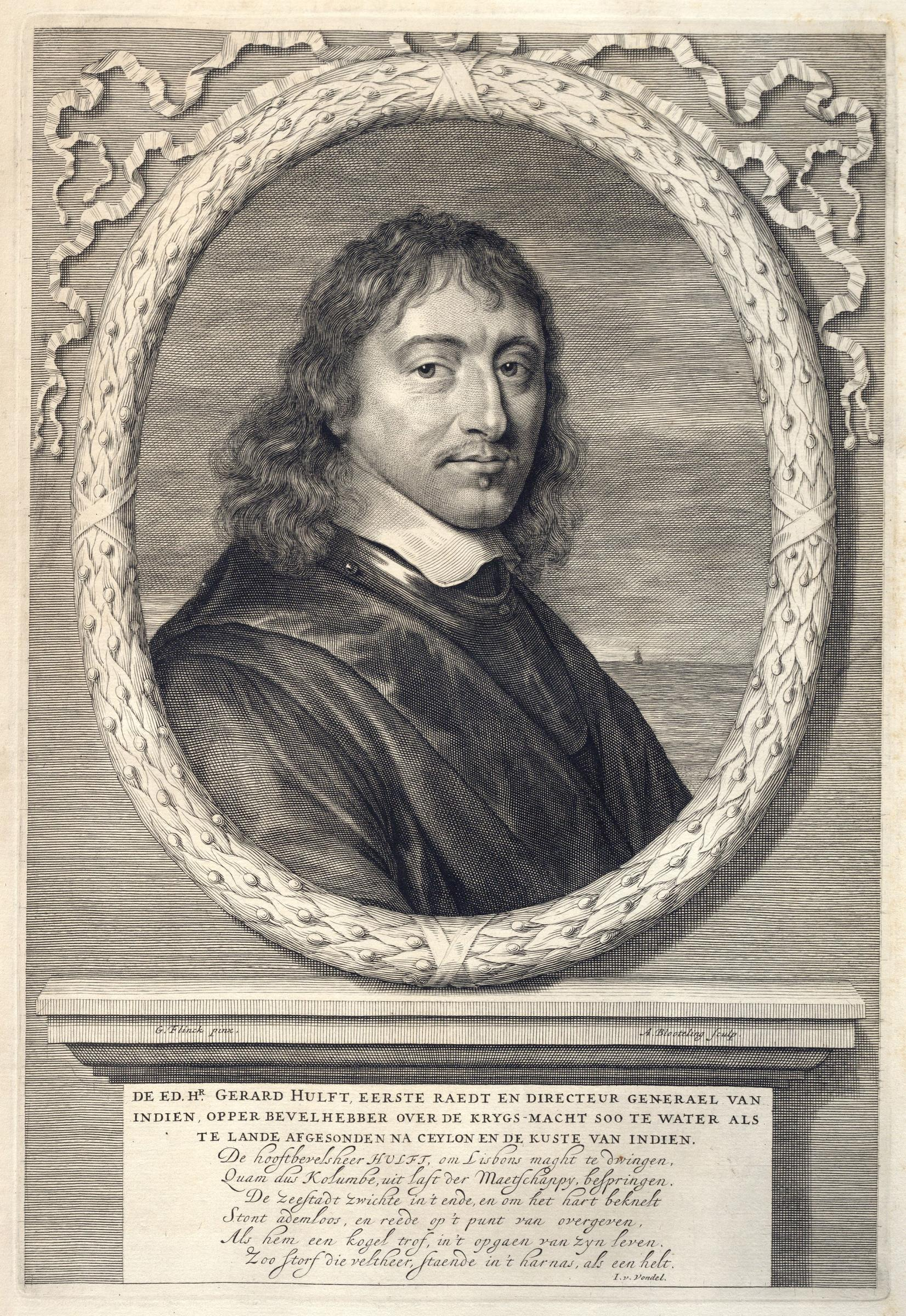 Portrait of General Hult. De Ed. Hr. Gerard Hulft, Eerste Raedt en Directeur Generael van Indien, Opperbevelhebber over de Krygs-macht soo te water als te lande afgesonden na Ceylon ende de kuste van Indien. De hooftbevelsheer Hulft, om Lisbons maght te dwingen, / Quam dus Kolumbe, uit last der Maetschappy, bespringen. / De zeestadt zwichte in 't ende, en om het hart beknelt / Stont ademloos, en reede op 't punt van overgeven, / Als hem een kogel trof, in 't opgaen van zyn leven. / Zoo storf die veltheer, staende in 't harnas, als een helt. / I.v.Vondel. Hulft lost his life during the conquest of Colombo in 1656.